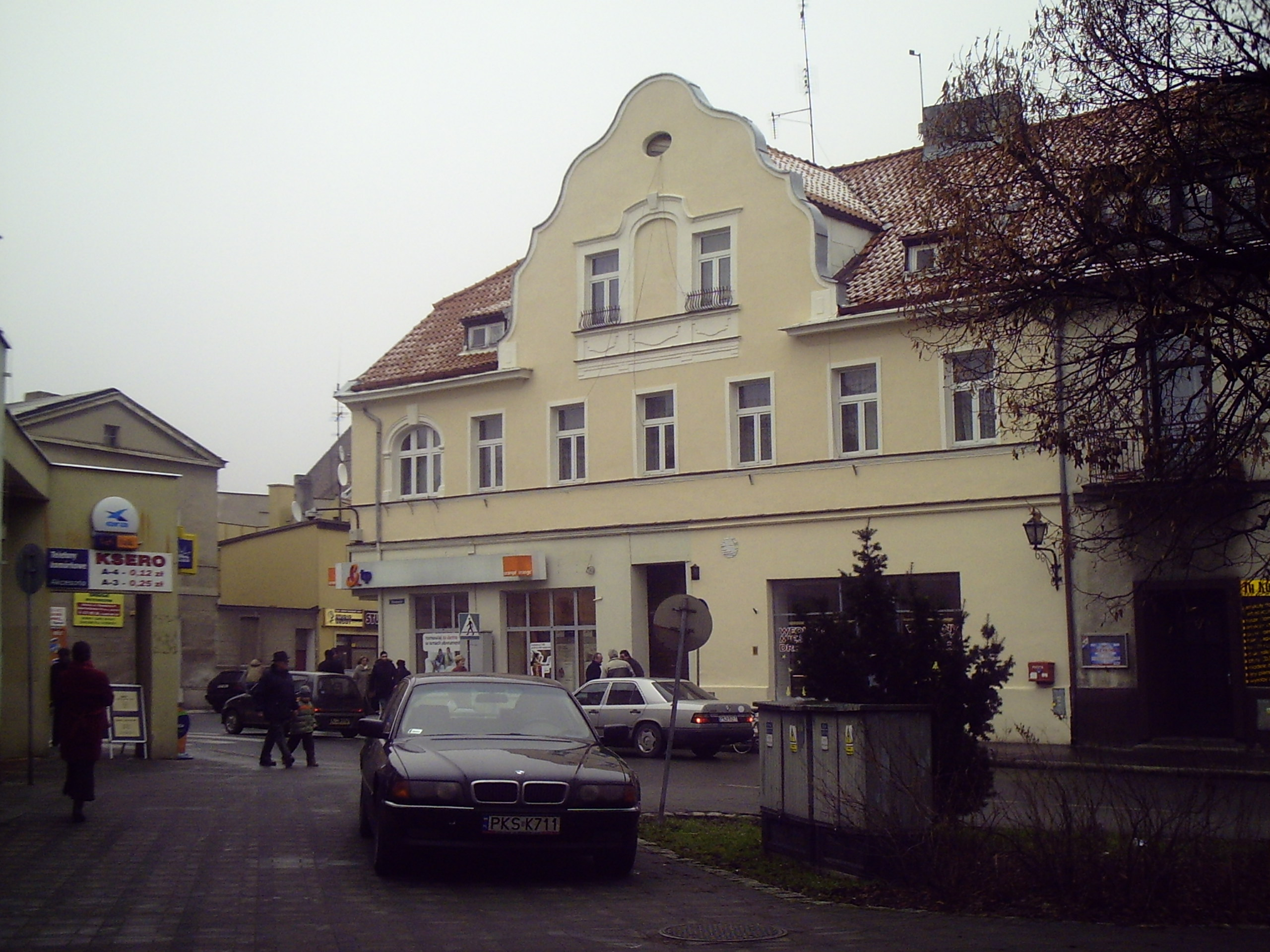 Picture of Ulica Wroclawska, Koscian, Poland.